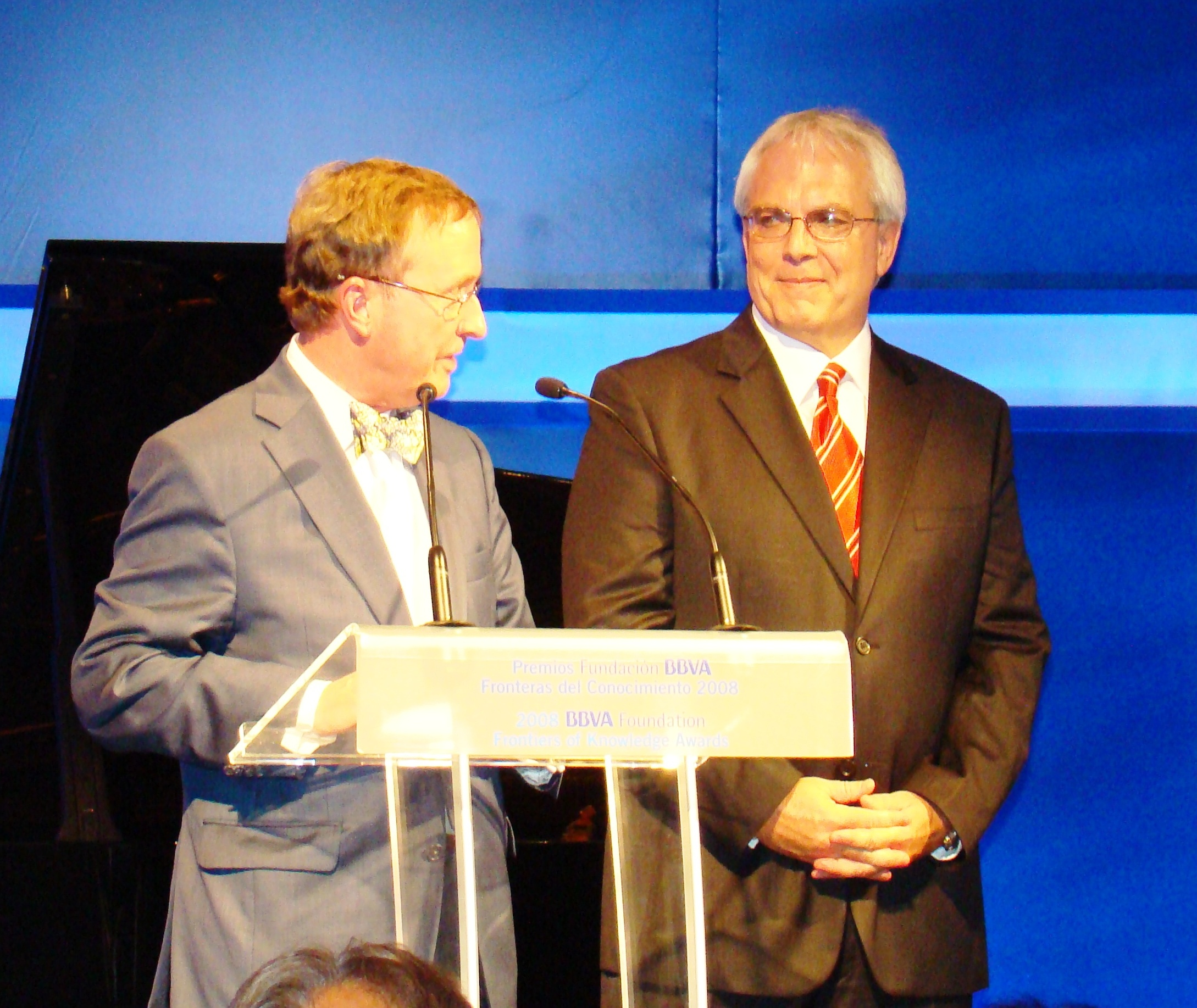 William F. Laurance and Tom Lovejoy accepting the BBVA Frontiers in Ecology and Environment Award, in Madrid, Spain in 2009.